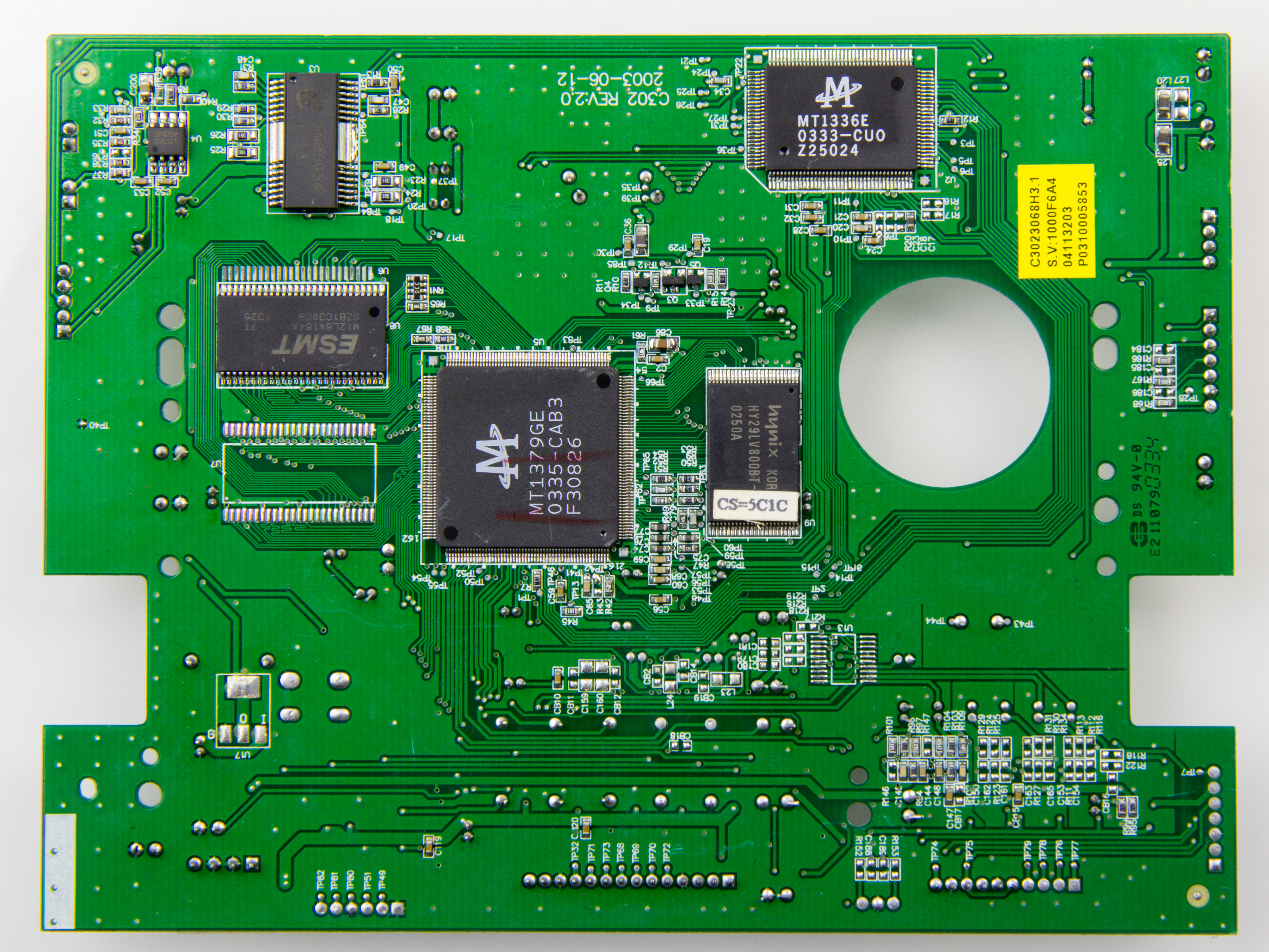 SEG DVD 430 - Printed circuit board